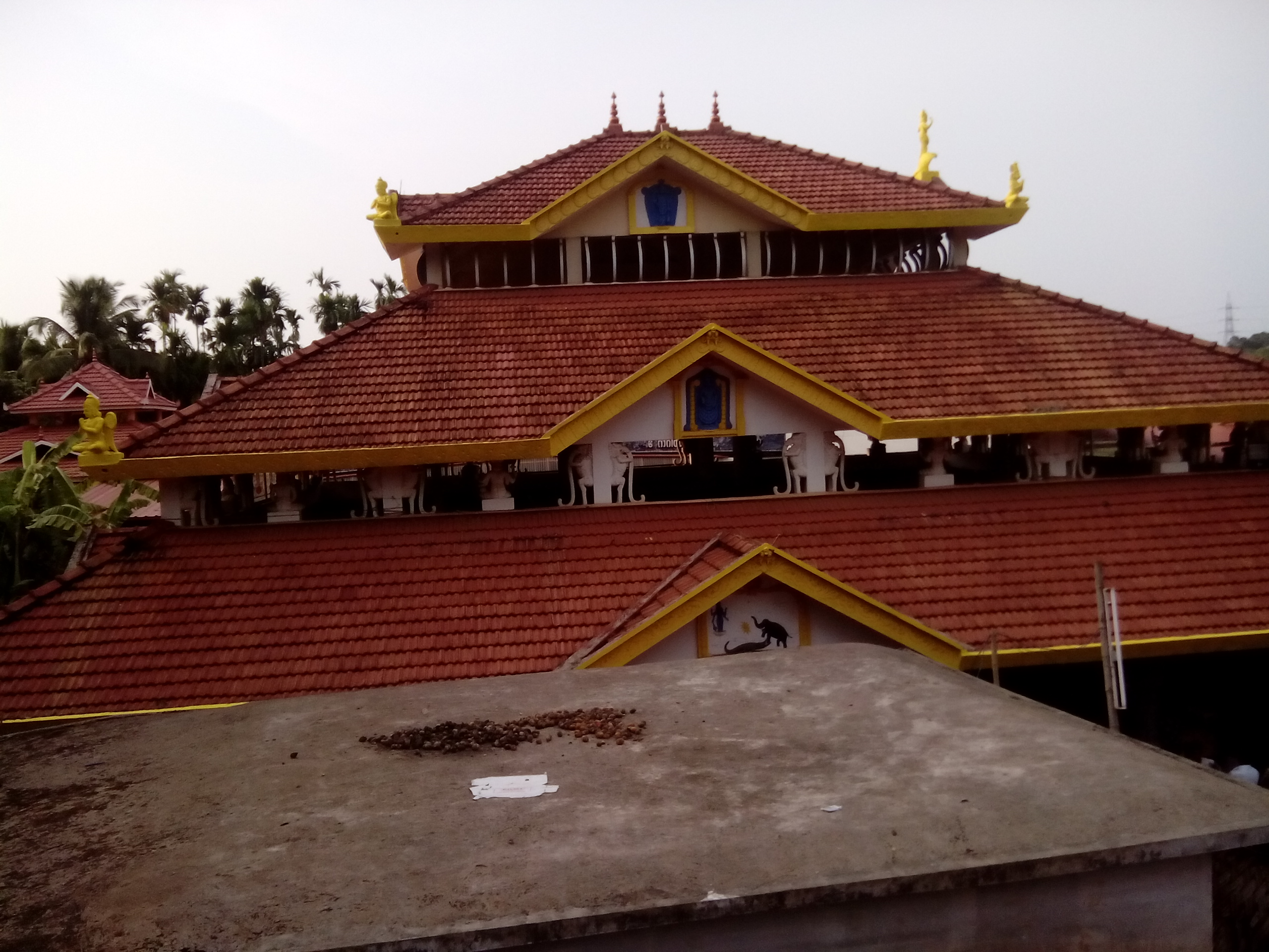 Cheemeni Vishnumorthy Temple, Kasaragod, Kerala